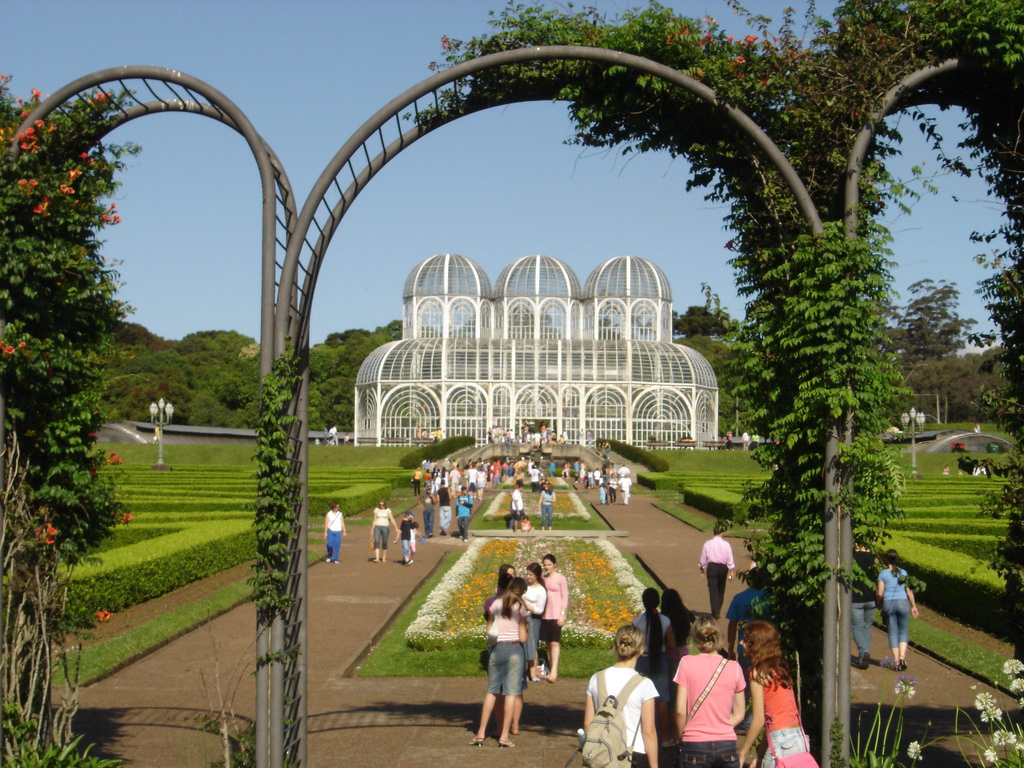 Botanic Garden of Curitiba.